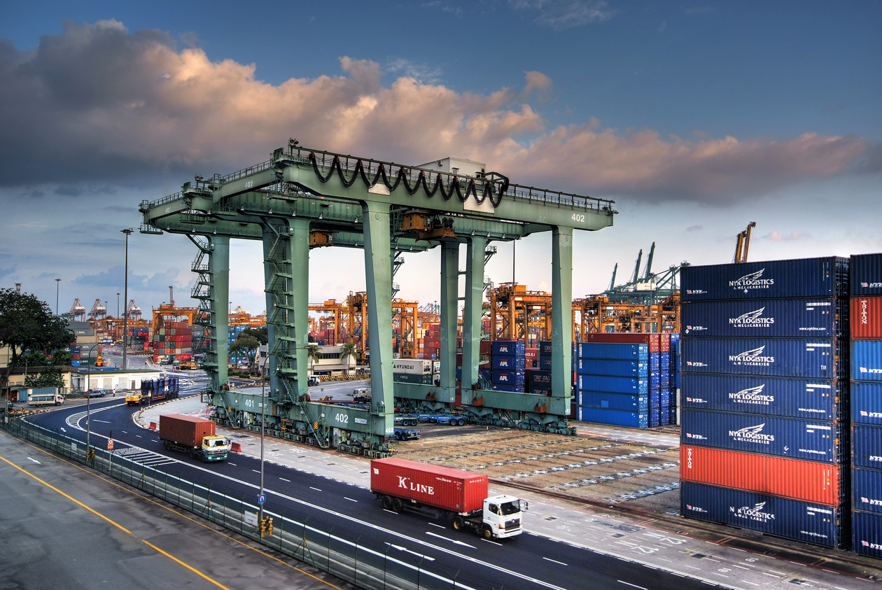 PSA Singapore Terminals is the world's busiest transhipment hub, handling about one-fifth of the world's total container transhipment throughput, and 6% of global container throughput. It was voted the "Best Container Terminal Operator (Asia) for the 20th time at the 2009 Asian Freight & Supply Chain Awards. PP: 5 images HDR with blending of 1 image on the moving container trucks Best viewed on BLACK